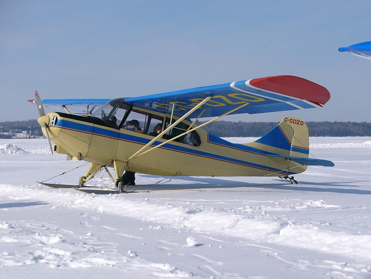 I took this photo of an Aeronca 7AC Champ on skiis at Prudhomme's Ice Fly-in near Ottawa Onatrio, 26 Feb 2005.